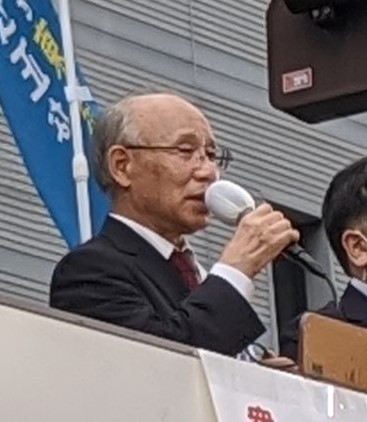 Utsunomiya Kenji (candidate of Tokyo gubernatorial election, June 18 2020, Minato City, Tokyo)